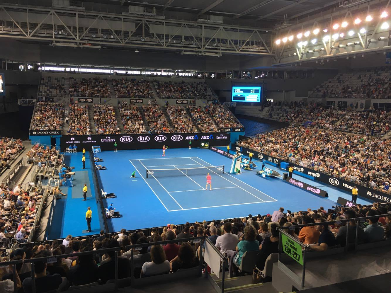 Australian Open 2016 - Johanna Konta v Denisa Allertová (3R) Category:Images of buildings and structures in Melbourne